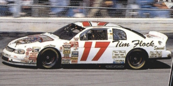 The photo has been taken in October 2017